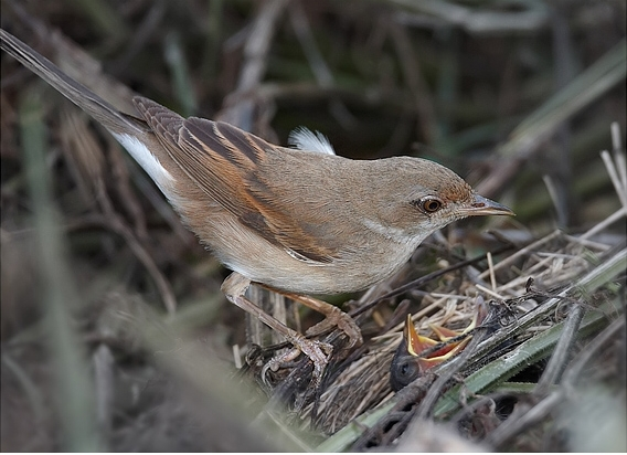 Sylvia communis - female and chicks; Olomouc, CZ